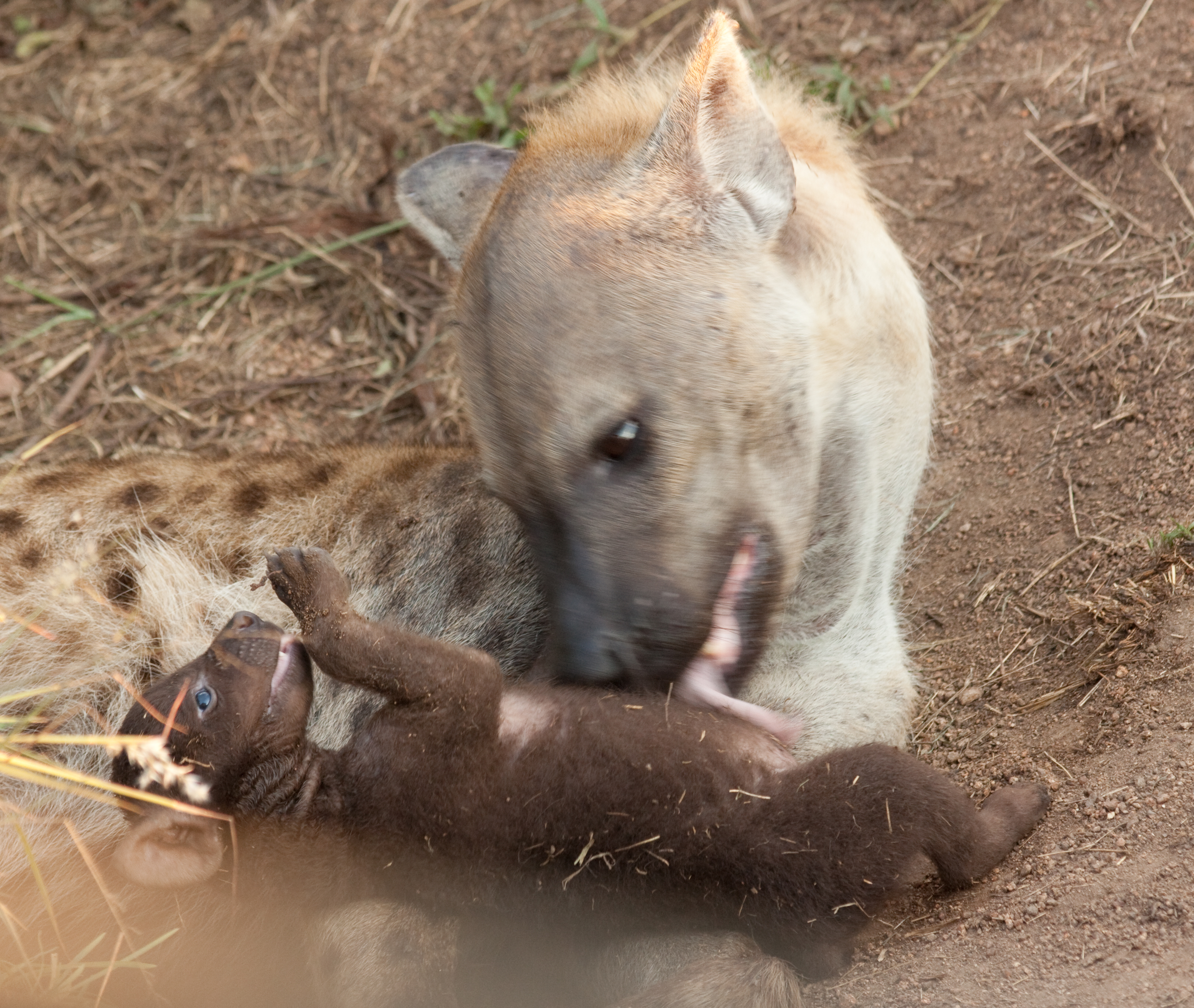 Spotted hyena grooming cub in Kruger National Park